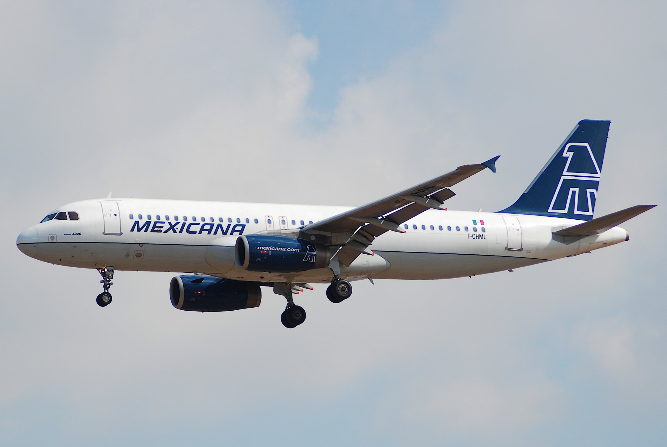 First flight: March 31, 1992...(c/n 320) 12/06/1992 Mexicana XA-RJZ 05/10/1995 Mexicana F-OHML 20/10/2009 Mexicana XA-MXX, ceased operations on August 28, 2010, stored